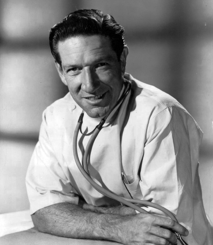 Photo of Richard Boone as Dr. Konrad Styner from the television program Medic. (This was a series he did before Have Gun: Will Travel.)